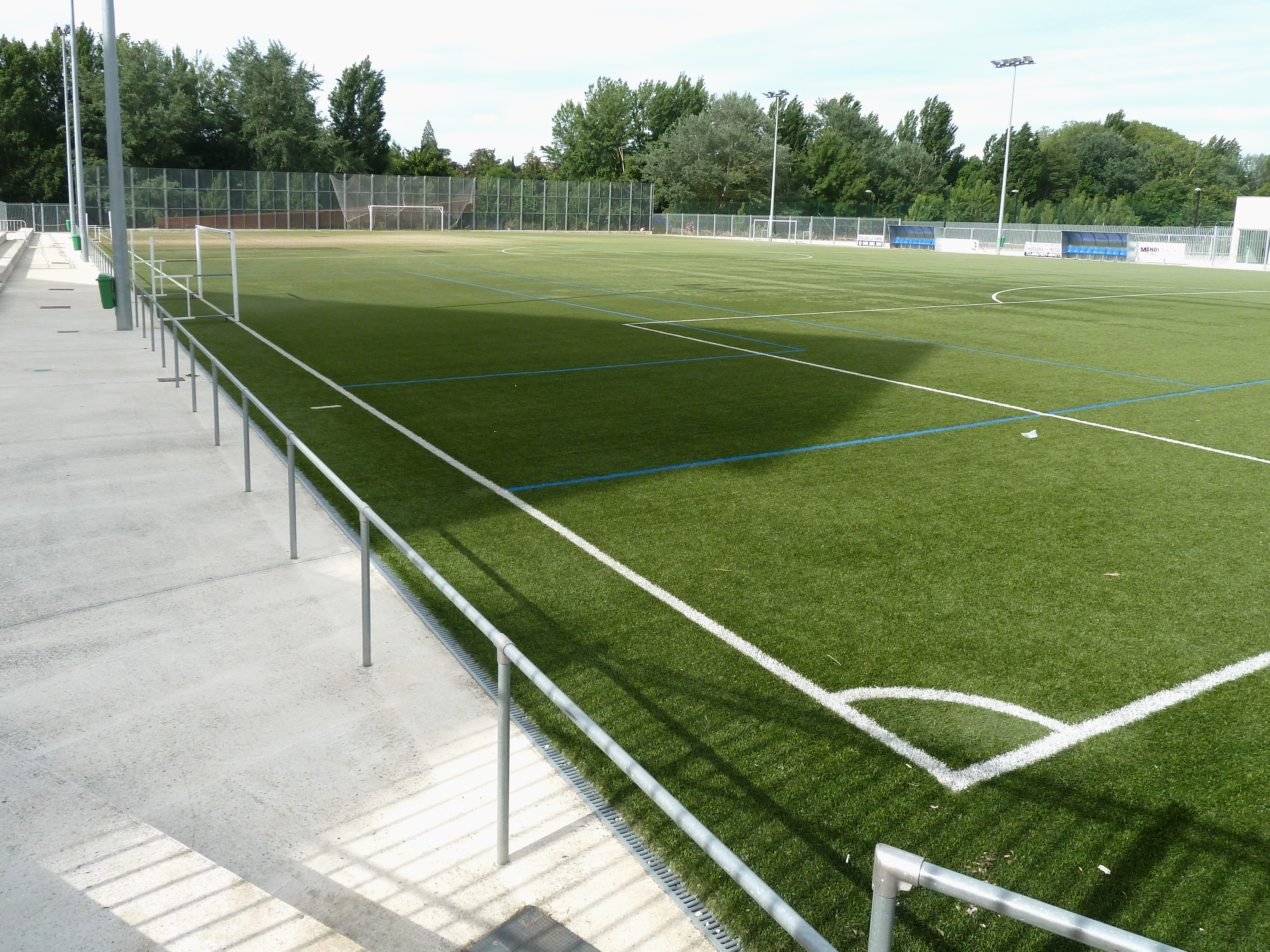 Iruñeko Sanduzelai auzoko belar artifizialezko futbol zelaia. Udalarena da, 1990ean eraikia eta 2007an birmoldatua. Baditu argiztapen artifiziala eta estalperik gabeko harmailak.